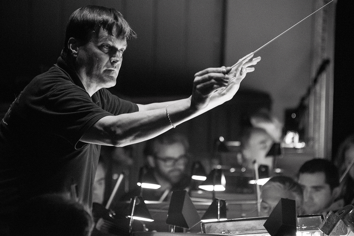 Christian Thielemann conducting during rehearsals at the Vienna State Opera